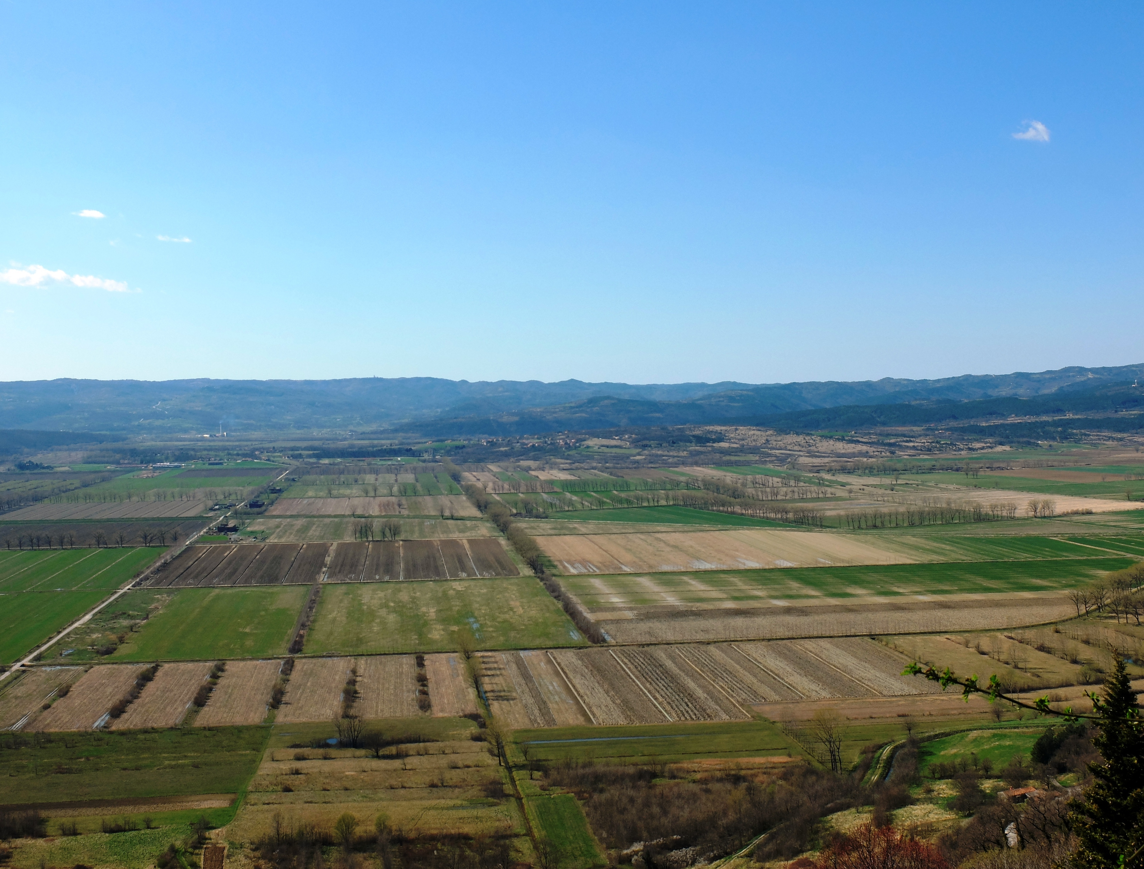 Čepić field (Ćepićko Polje) seen from Kožljak